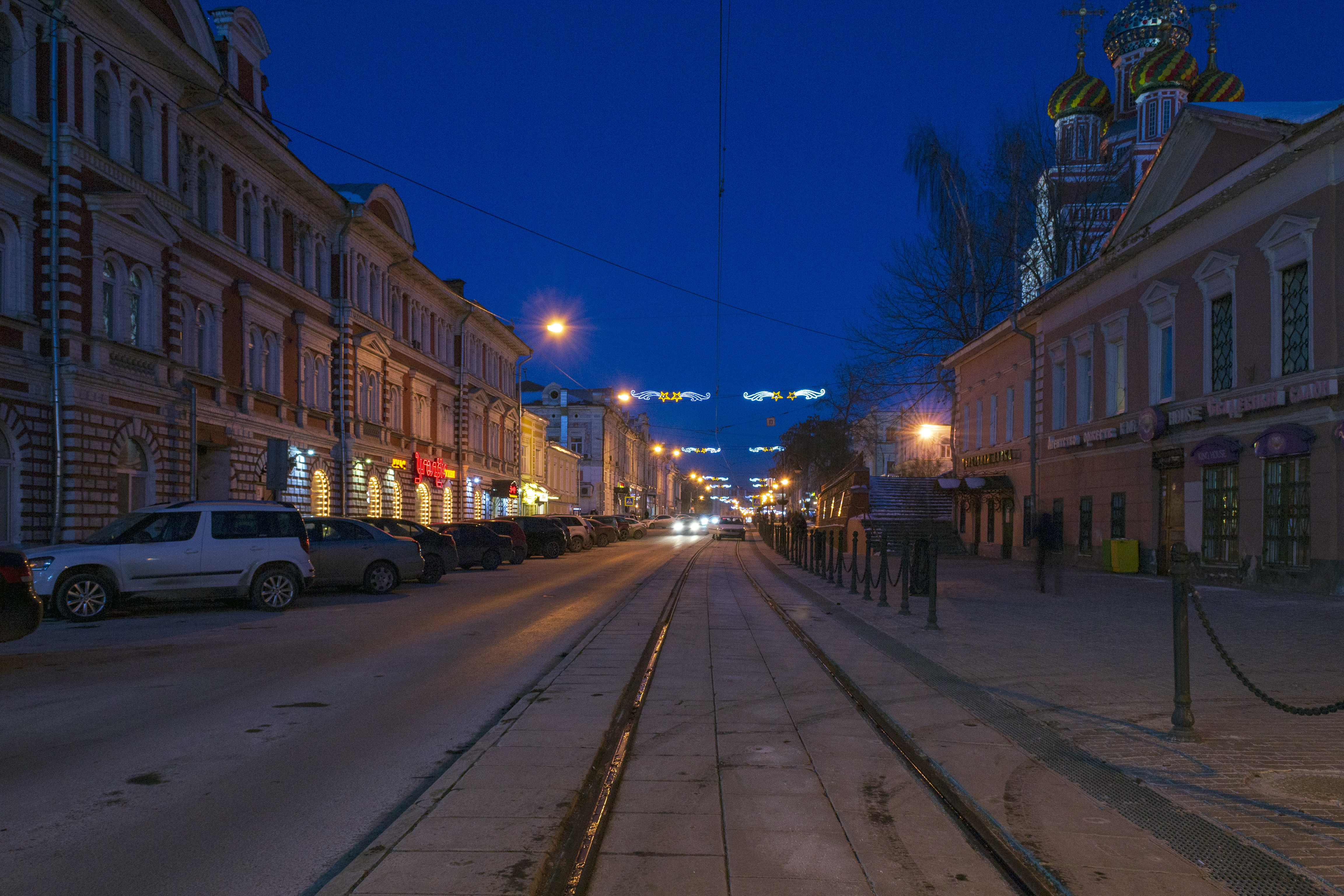 Rozhdestvenskaya Street at night in Nizhny Novgorod, Russia